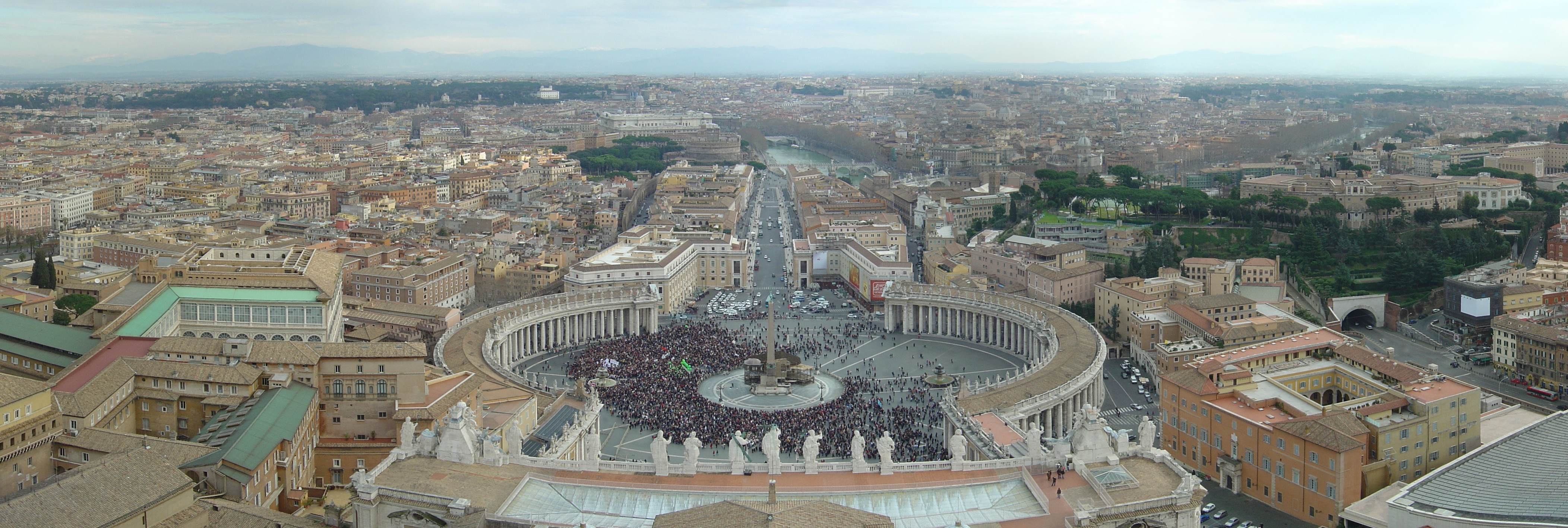 A view from Saint Peter's dome, Rome, Italy.